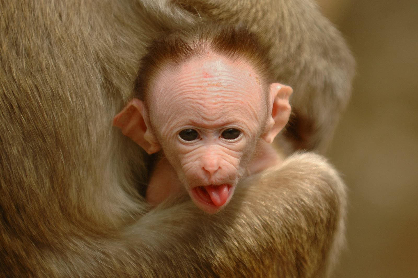 Some monkeys like to make faces at the photographers who keep bothering them so often